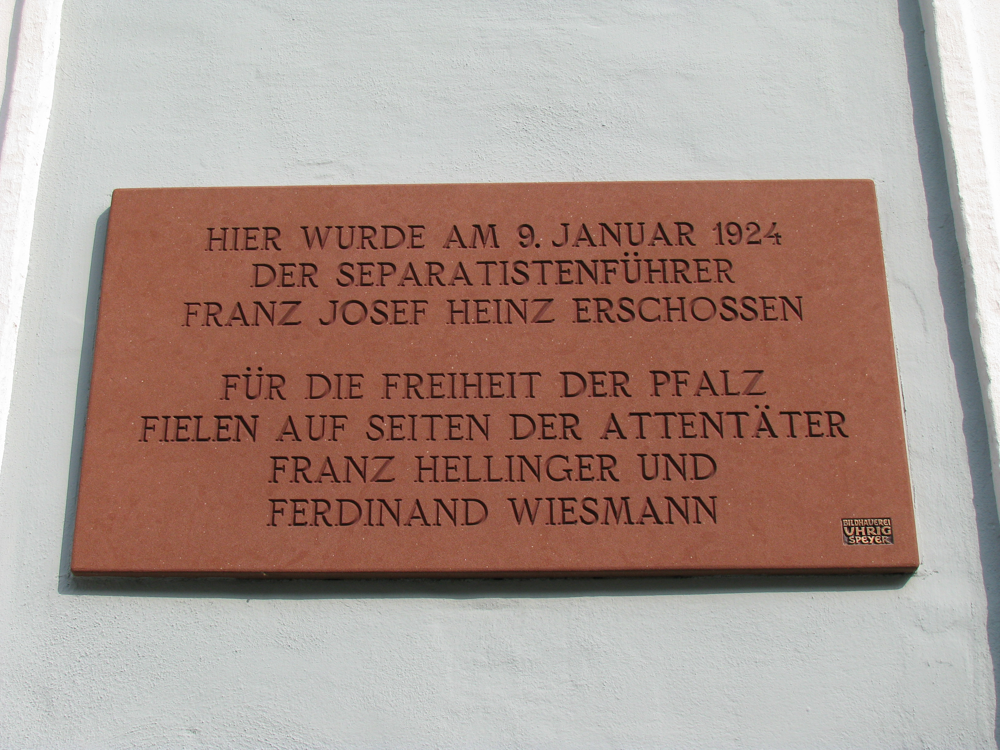 Speyer: Inscription on the Wittelsbacher Hof (former hotel): Here, separatist leader Franz Josep Heinz was shot on 9. February, 1925. On the part of the assassins, Franz Hellinger and Ferdinand Wiesmann died for the freedom of the Palatine.